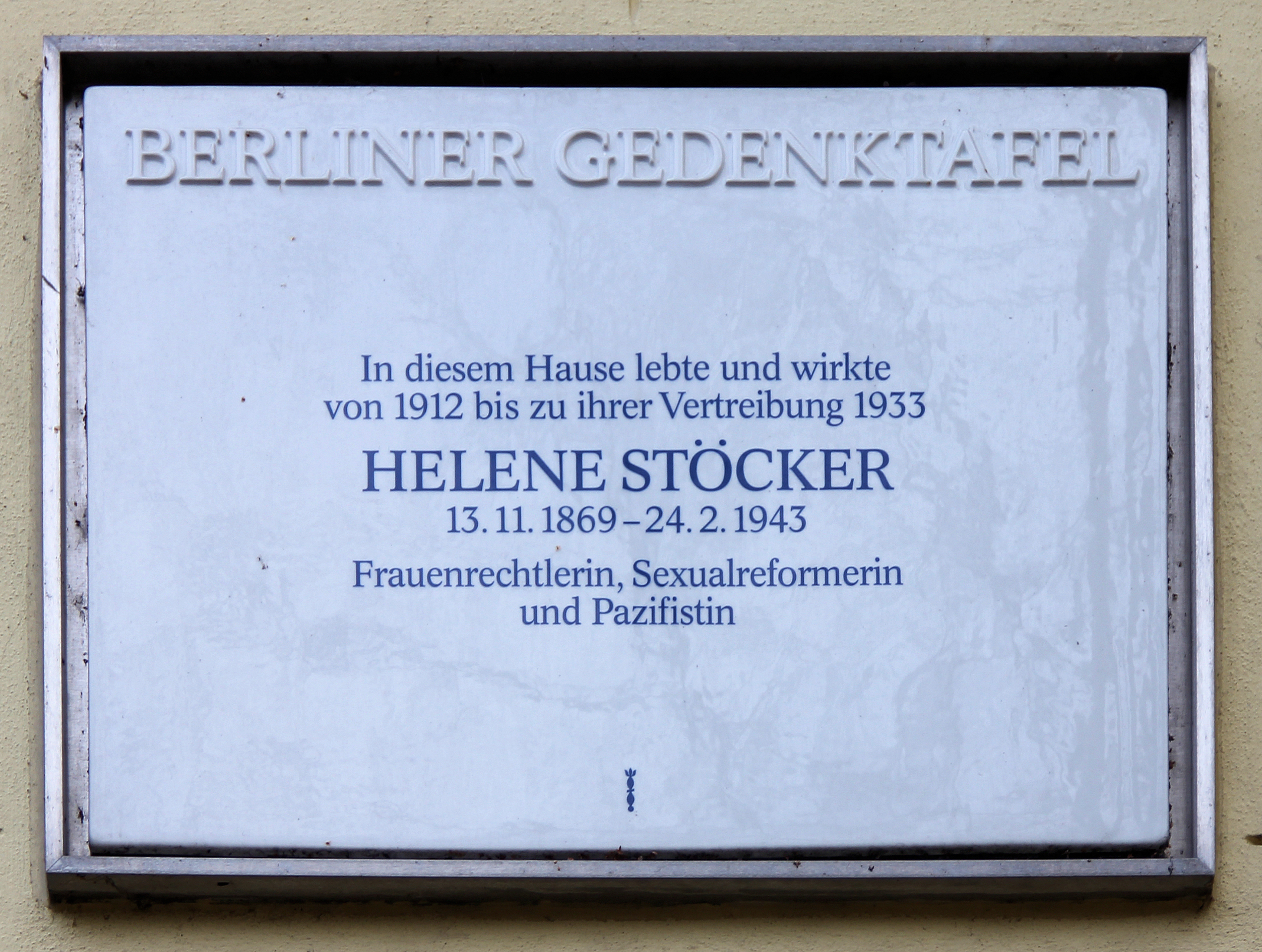 Berlin memorial plaque, Helene Stöcker, Münchowstraße 1, Berlin-Nikolassee, Germany Koordinate:52°25′47″N 13°11′27″E / 52.42972°N 13.19083°E